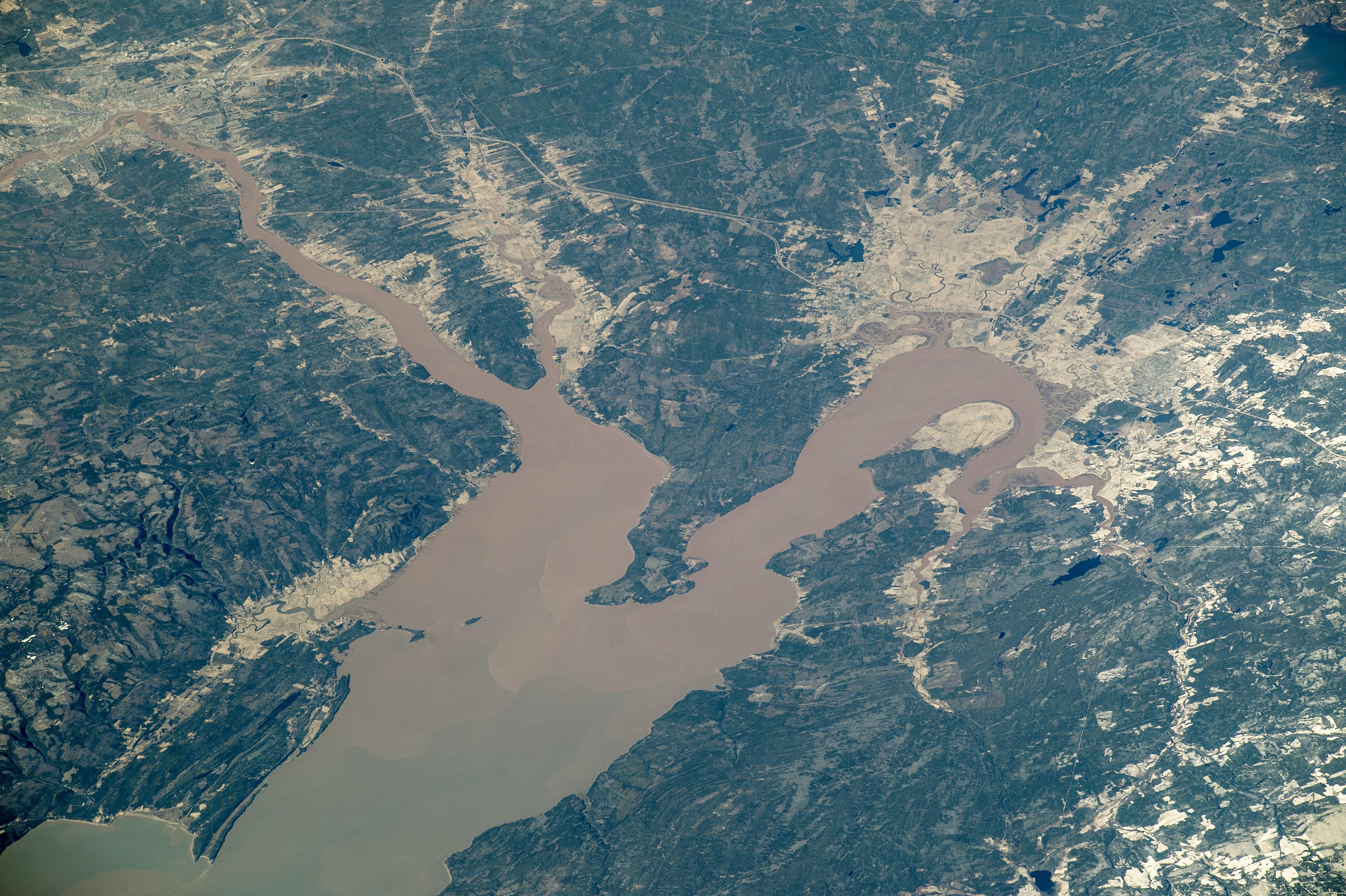 After passing over North America, a crew member aboard the International Space Station looked back at the coastline and took this photograph of one of the world’s most famous bays. The image shows the upper 54 kilometers (33 miles) of the 220 kilometer-long (140 mile) Bay of Fundy, site of the highest vertical tidal range on the planet. The city of Moncton sits alongside the brown Petitcodiac River—also known as the Chocolate River. Other light-toned areas are agricultural fields that contrast with the dark greens of forests. The photo also shows the line of the Trans-Canada Highway, which connects two of Canada’s Maritime Provinces—New Brunswick and Nova Scotia—to the Pacific Coast. The narrowing of the Bay of Fundy has the effect of increasing the height of the tide, such that the highest tides are measured at Shepody Bay at the inland end of Fundy. A rise of 14 meters (46 feet) is common. Each tide transports vast amounts of water. About 2 billion cubic meters (70 billion cubic feet) flood in and ebb out twice per day. Measured in the central channel of the bay, this flow represents the power of 8,000 train engines or 25 million horses. Tidal energy for hydroelectric power generation is thus an item of keen interest in the region, but the engineering difficulties, great costs, and environmental concerns have so far prevented any development. Astronaut photograph ISS047-E-53943 was acquired on May 10, 2016, with a Nikon D4 digital camera using a 400 millimeter lens, and is provided by the ISS Crew Earth Observations Facility and the Earth Science and Remote Sensing Unit, Johnson Space Center. The image was taken by a member of the Expedition 47 crew. The image has been cropped and enhanced to improve contrast, and lens artifacts have been removed.